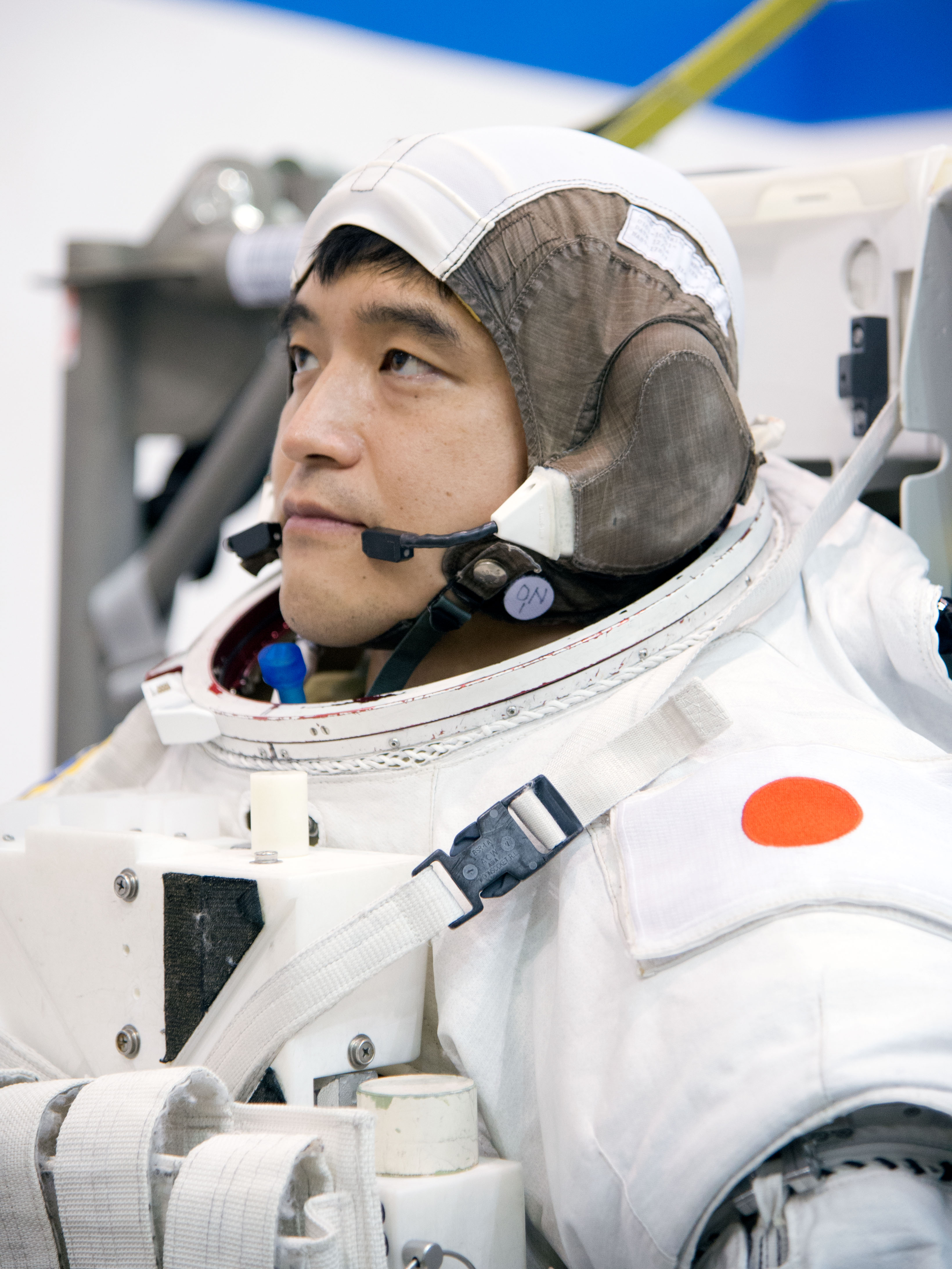 Expedition 48/49 crewmember and Japan Aerospace Exploration Agency (JAXA) astronaut Takuya Onishi during training for a spacewalk (EVA) at the Johnson Space Centers Neutral Buoyancy Laboratory.